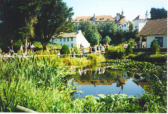 Caldey Island Monastery Reflected in the Pond. A steady stream of tourists passing by between the ferry landing and the monastery / shop.